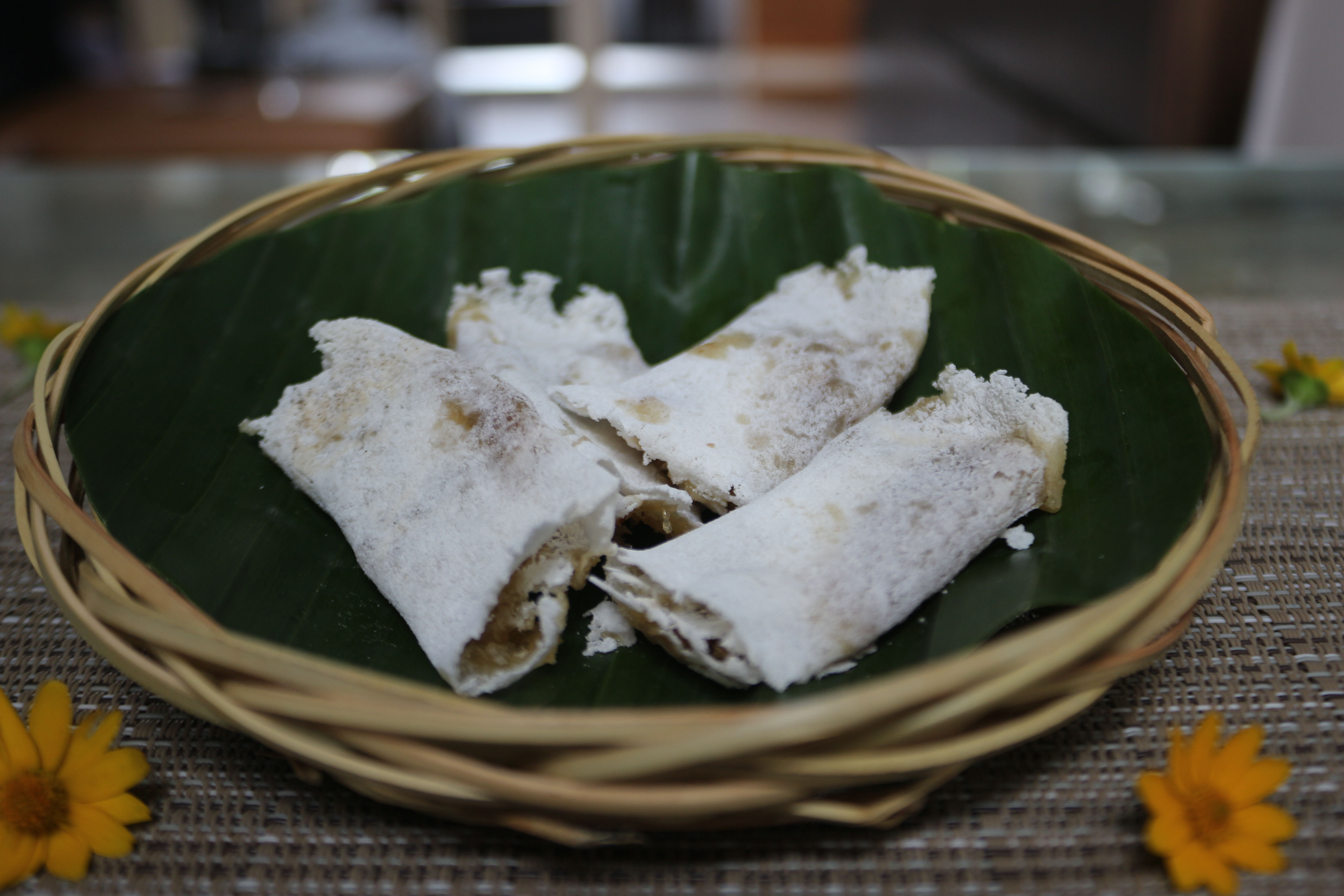 Bendu is traditional balinese snack foods which usually from traditional market at villages.